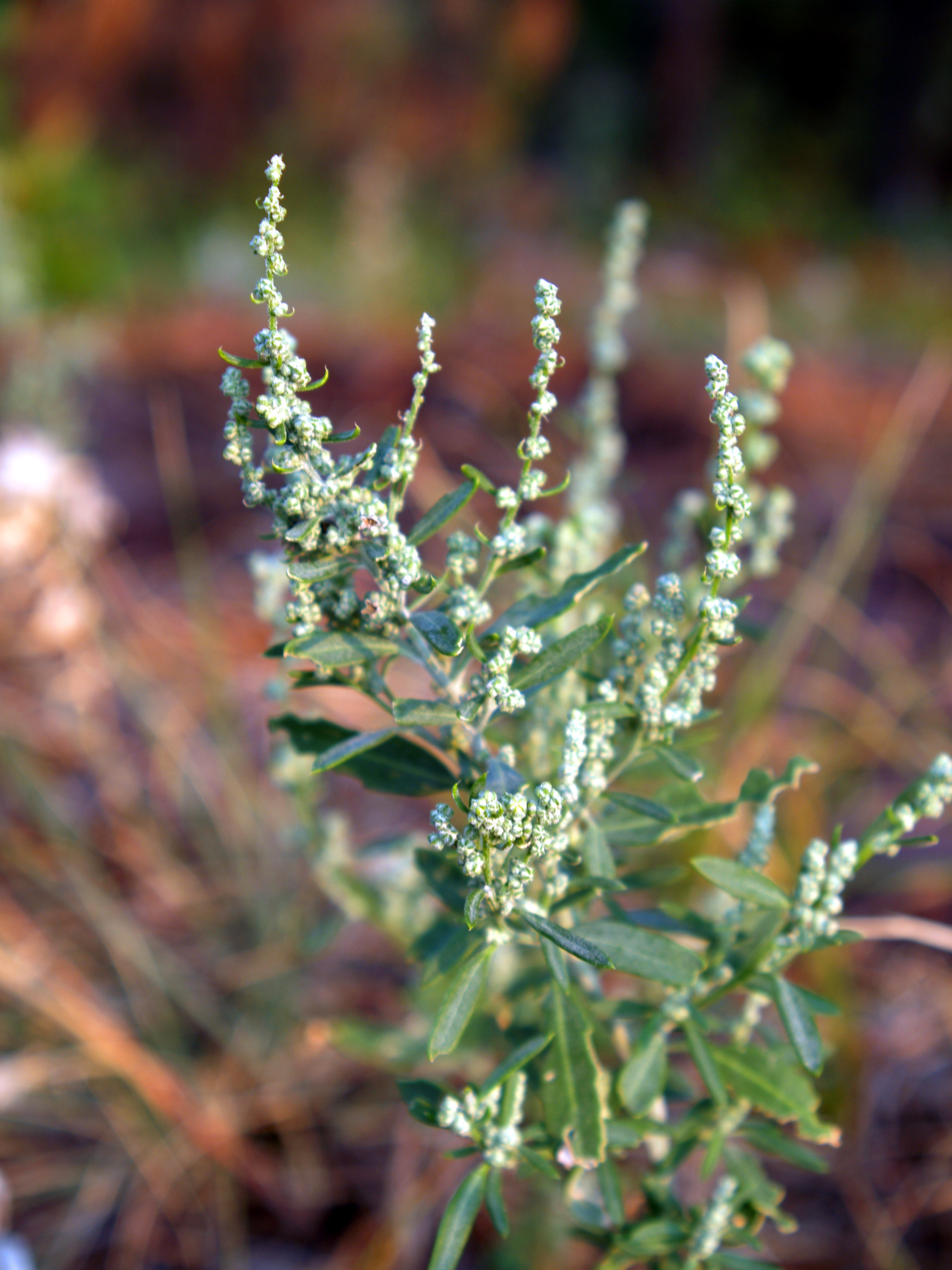 Chenopodium berlandieri at Wind Cave National Park, South Dakota, USA